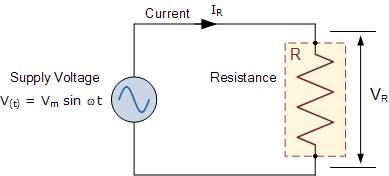 Qarku me rezistence